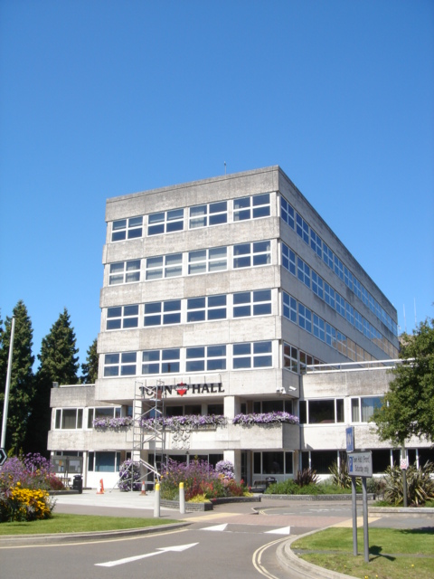 View of Crawley town hall, looking northwest from The Boulevard. Photographed on 4th August 2007.